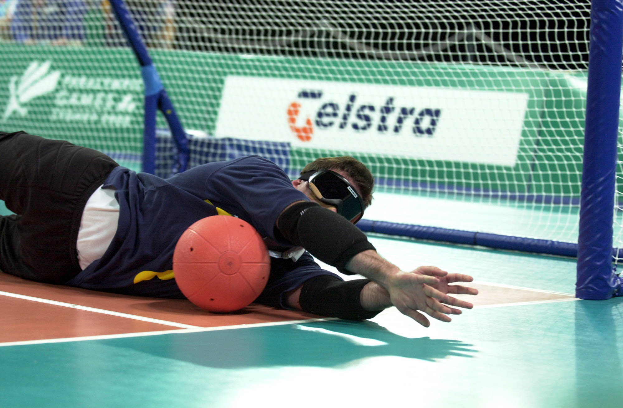 Action shot of Australian goalball player Rob Crestani saving the ball during 2000 Sydney Paralympic Games match, Australia (AUS) vs Sweden (SWE)